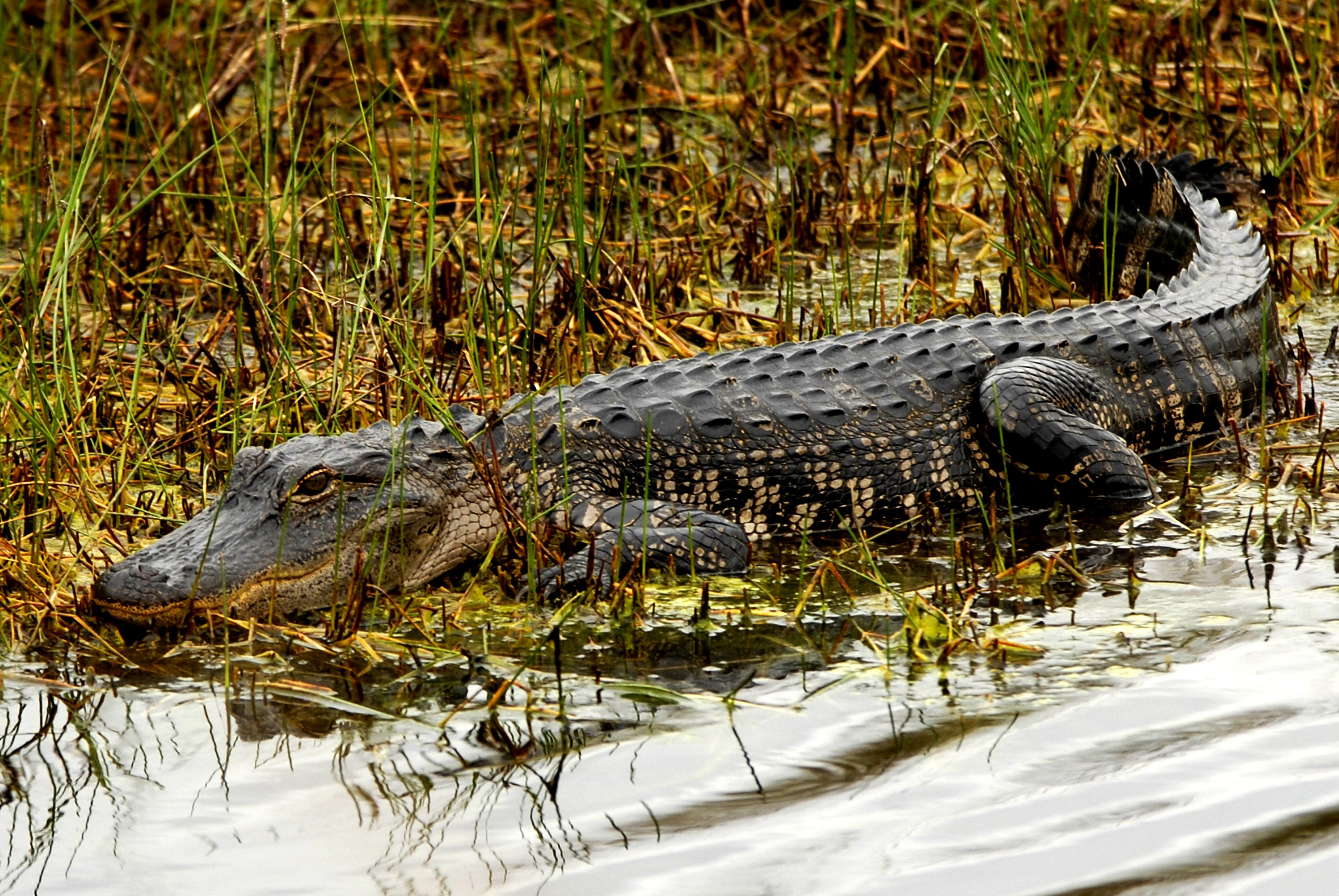 American Alligator at Lake Woodruff